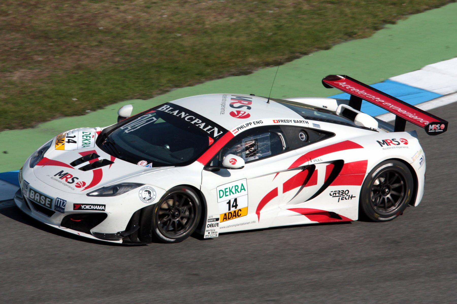 Philipp Eng driving a McLaren MP4-12C at the first GT Masters race in Hockenheim 2012.